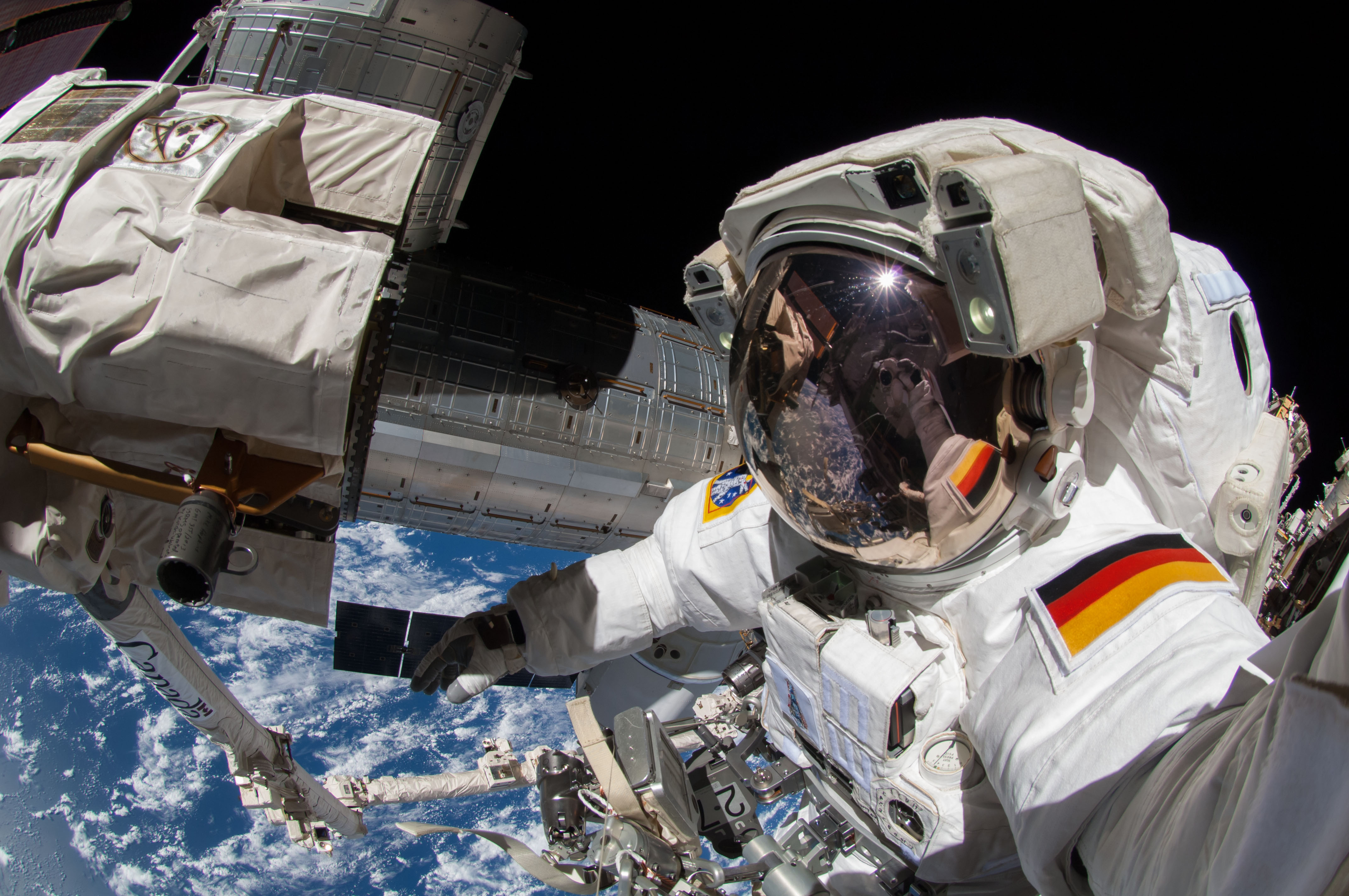 Selfie of Alexander Gerst during U.S. EVA #27 European Space Agency astronaut Alexander Gerst, Expedition 41 flight engineer, participates in a session of extravehicular activity (EVA) as work continues on the International Space Station. During the six-hour, 13-minute spacewalk, Gerst and NASA astronaut Reid Wiseman (out of frame), flight engineer, worked outside the space station's Quest airlock relocating a failed cooling pump to external stowage and installing gear that provides back up power to external robotics equipment.